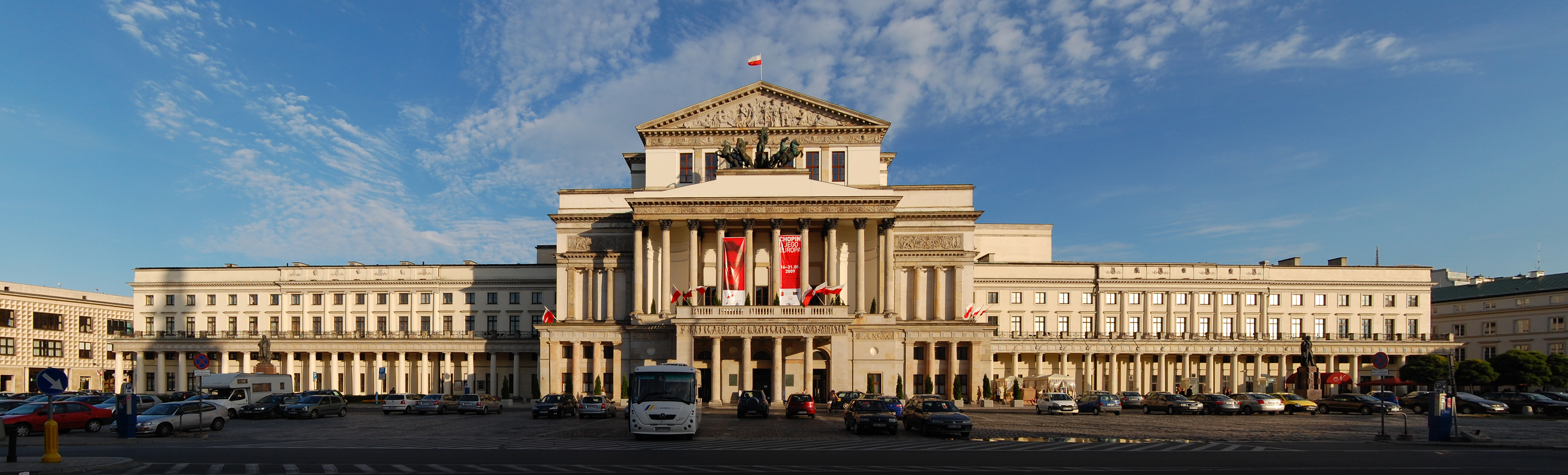 Great Theatre in Warsaw, Poland.